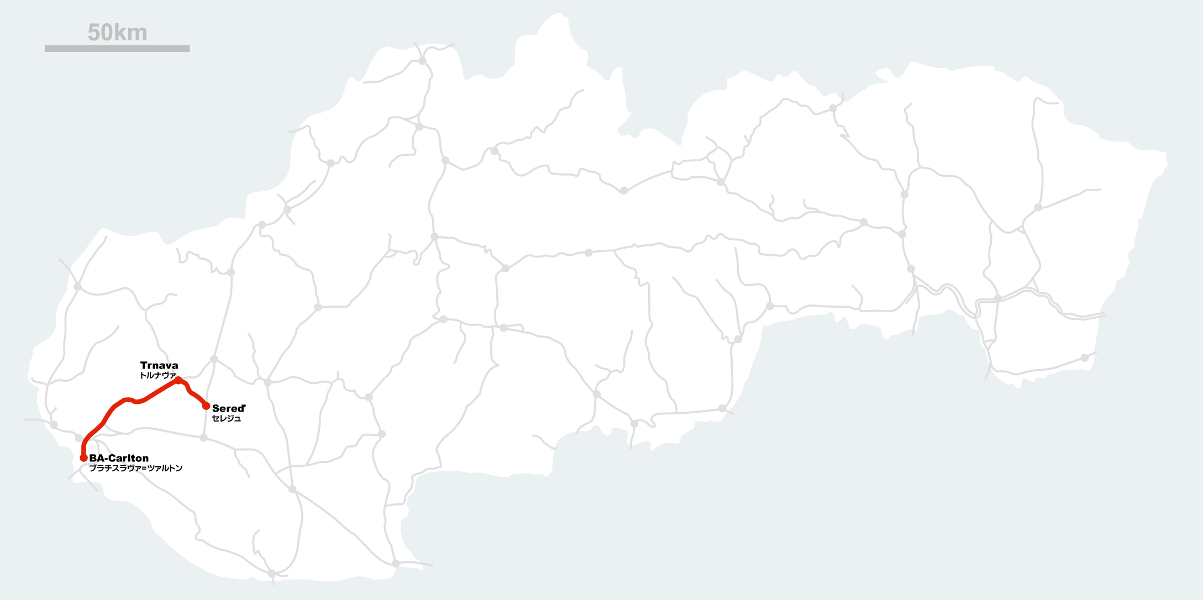 Location map of Medzimestská konská železnica Bratislava – Sereď with Japanese language